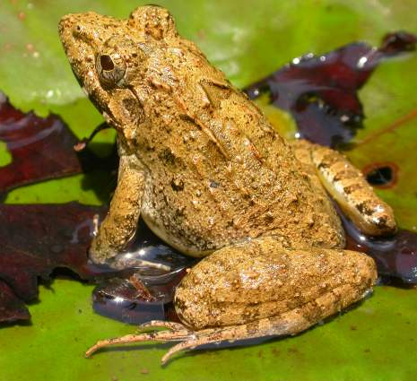 Hoplobatrachus tigerinus, Wynaad